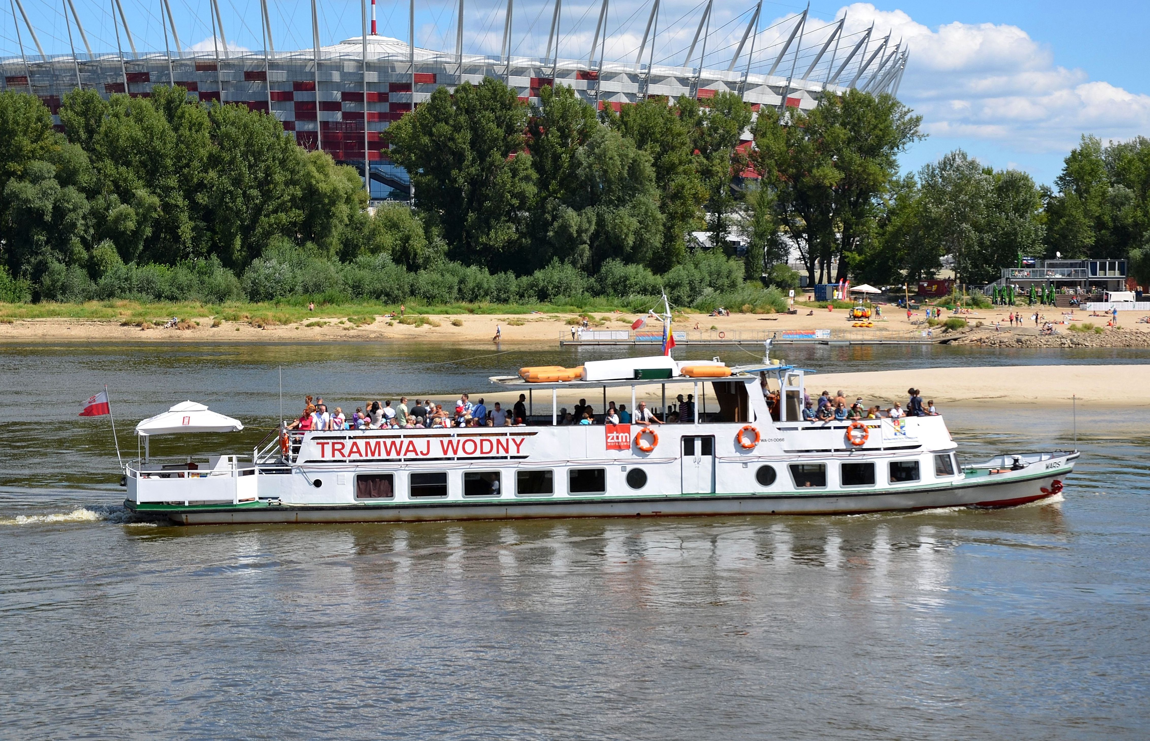 "Wars" ferry tram in Warsaw